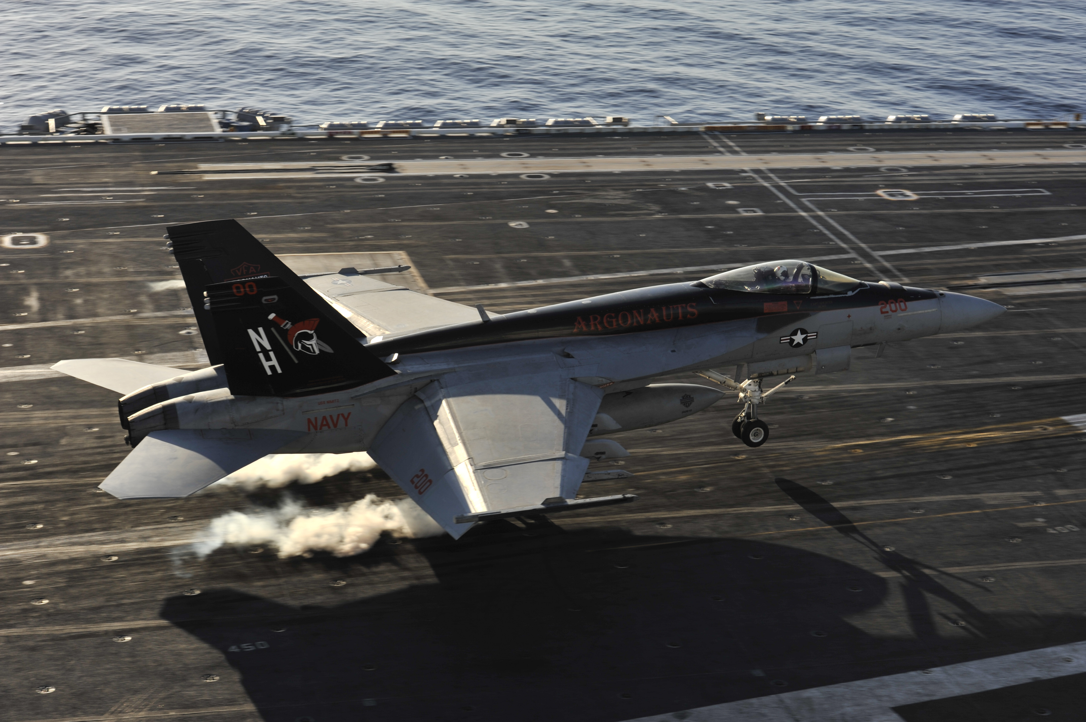 A U.S. Navy Boeing F/A-18E Super Hornet, from Strike Fighter Squadron 147 (VFA-147) "Argonauts", performs a touch and go on the flight deck of the aircraft carrier USS Nimitz (CVN-68). Nimitz was underway conducting Tailored Ship's Training Availability and Final Evaluation Problem (TSTA/FEP), which evaluates the crew on their performance during training drills and real-world scenarios. Once Nimitz completed TSTA/FEP they began Board of Inspection and Survey (INSURV) and Composite Training Unit Exercise (COMPTUEX) in preparation for an upcoming 2017 deployment.